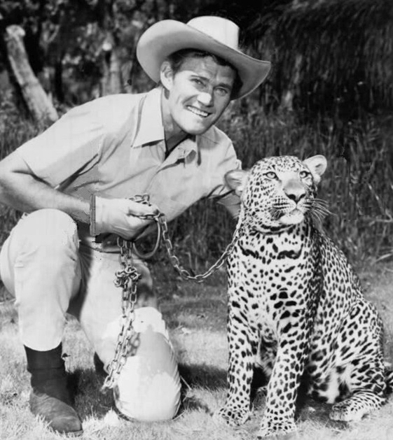 Photo of Chuck Connors as Jim Sinclair from the television program Cowboy in Africa.